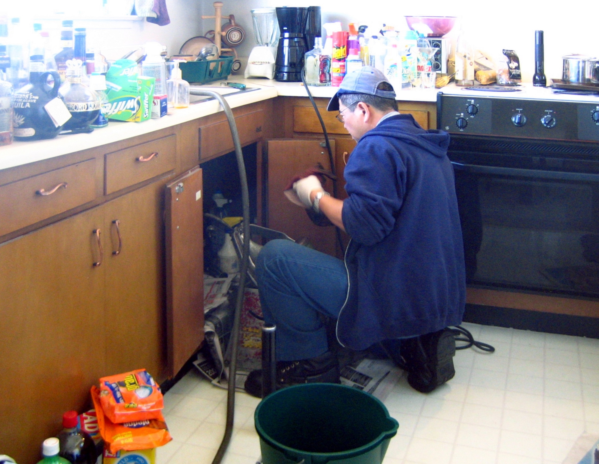 A Plumber at work.